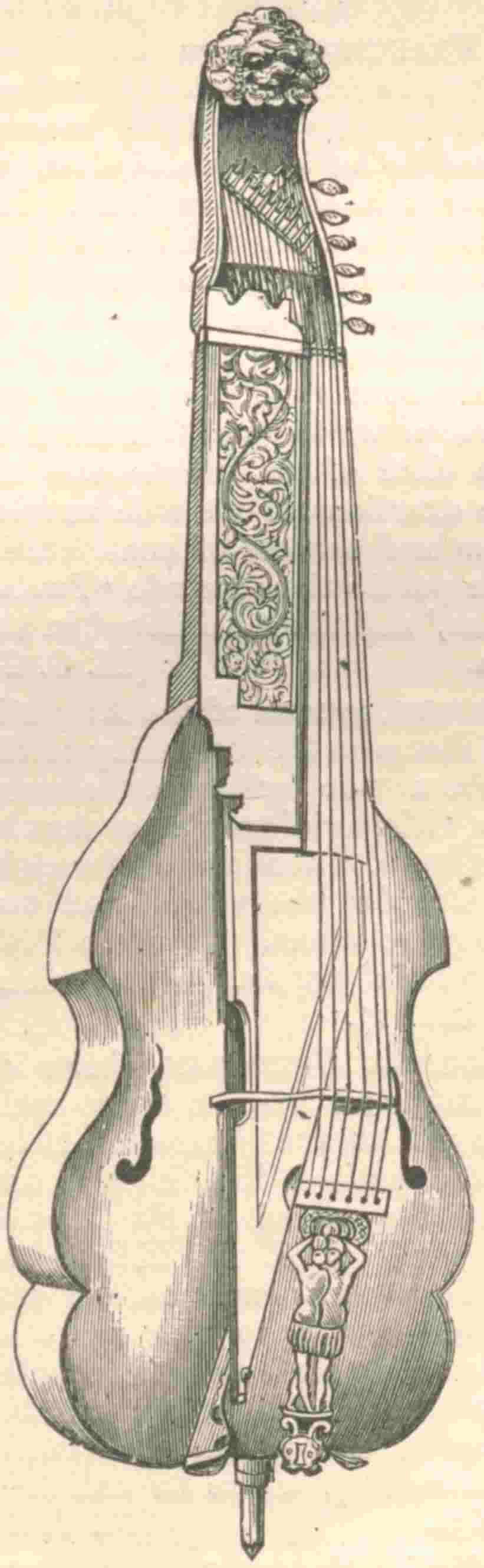 Baryton. Image public domain. This scan by Andrew Alder from an 1880 dictionary of music.